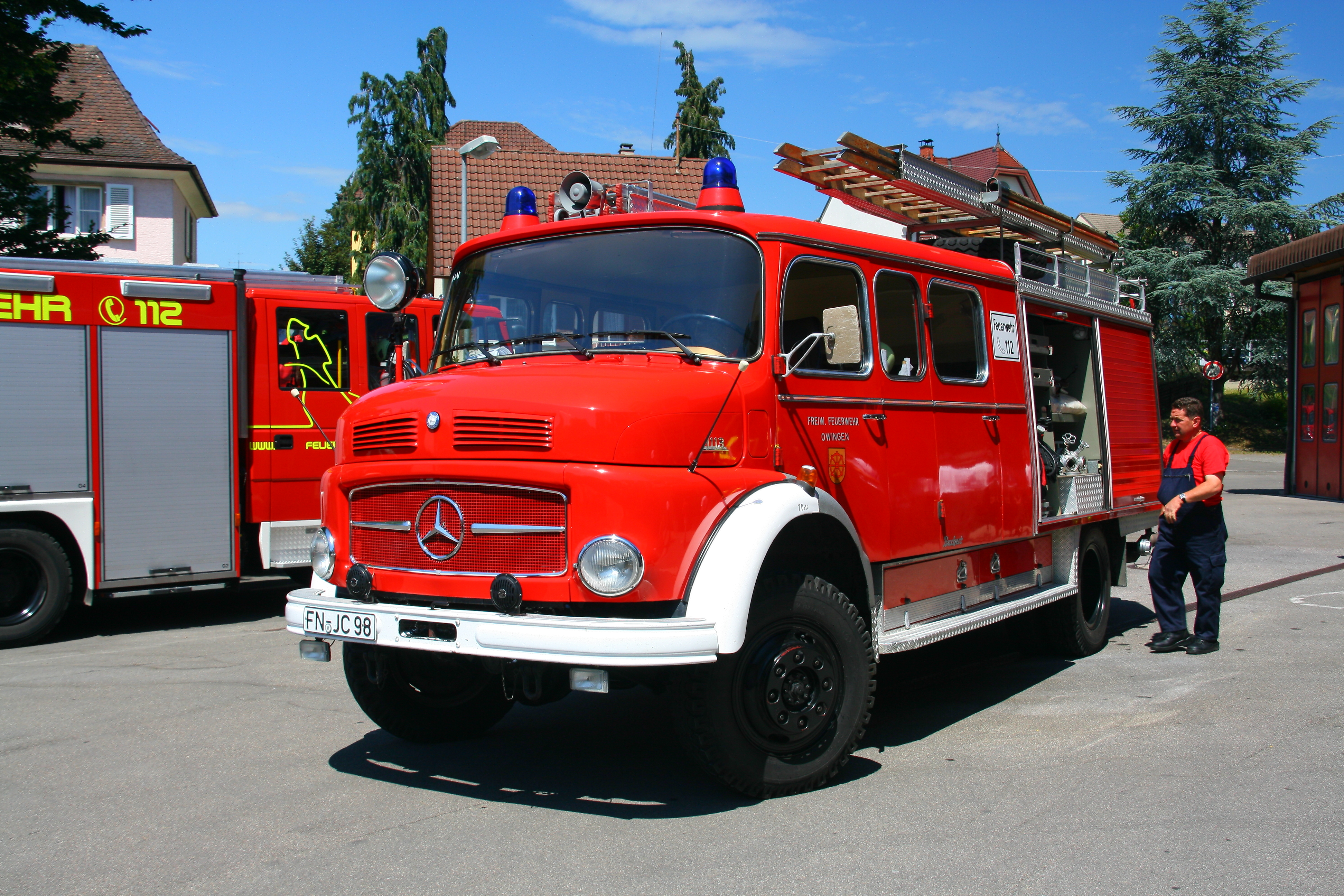 LF16